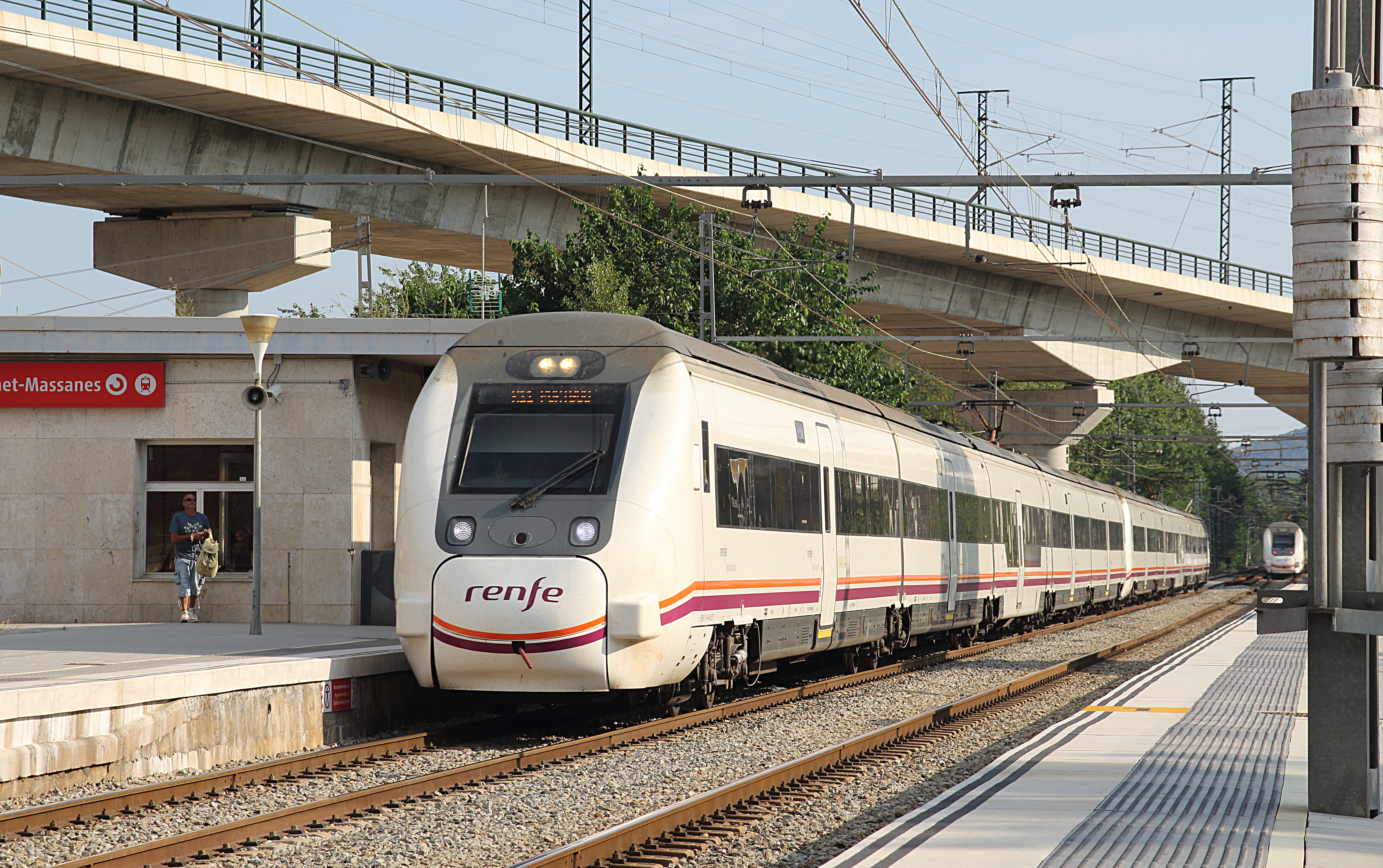 Spain Express Media Distancia station Macanet-Massanes (Catalonia, Spain).